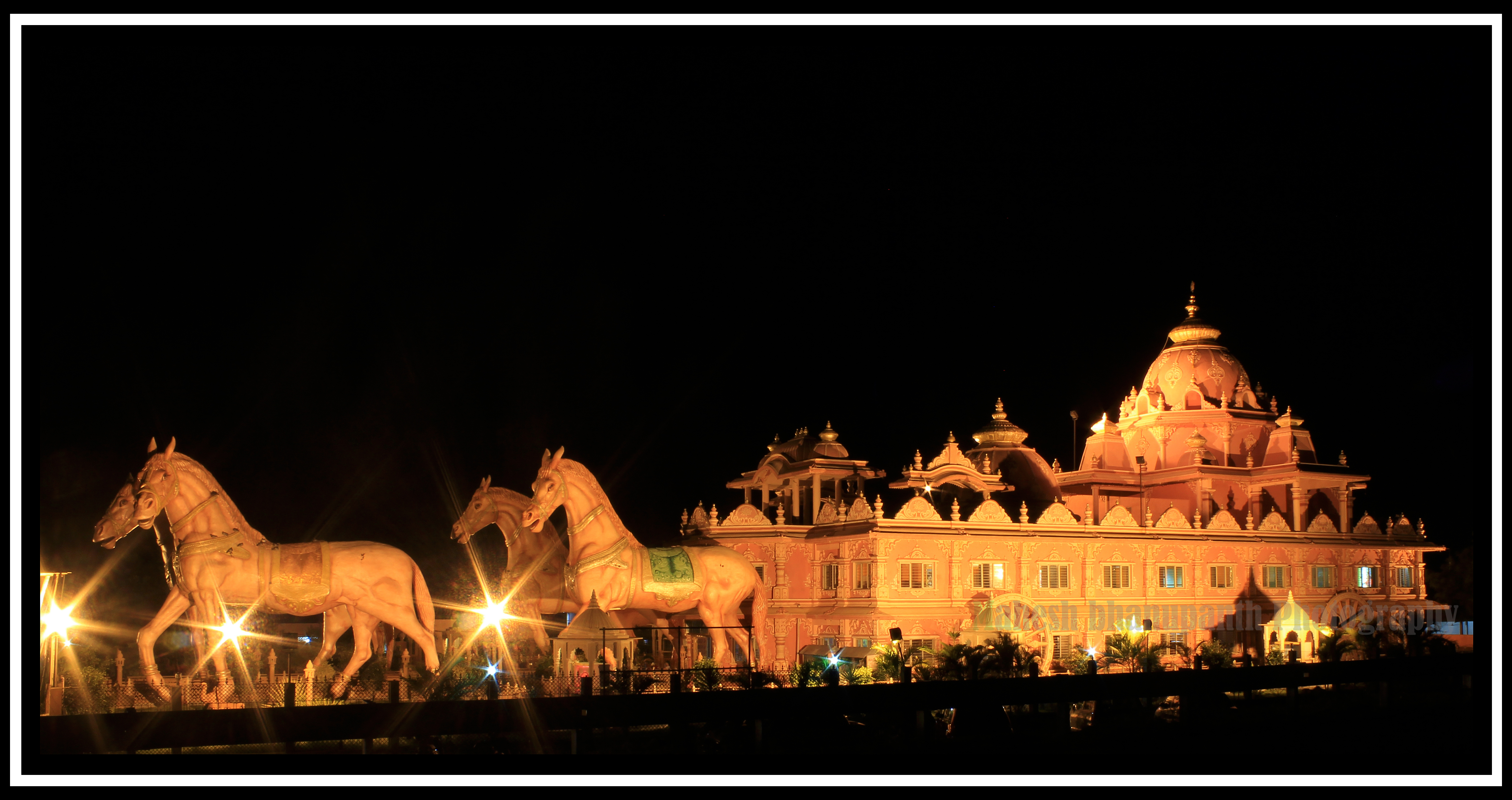 Isckon Anantapur on national highway 7(NH44 )